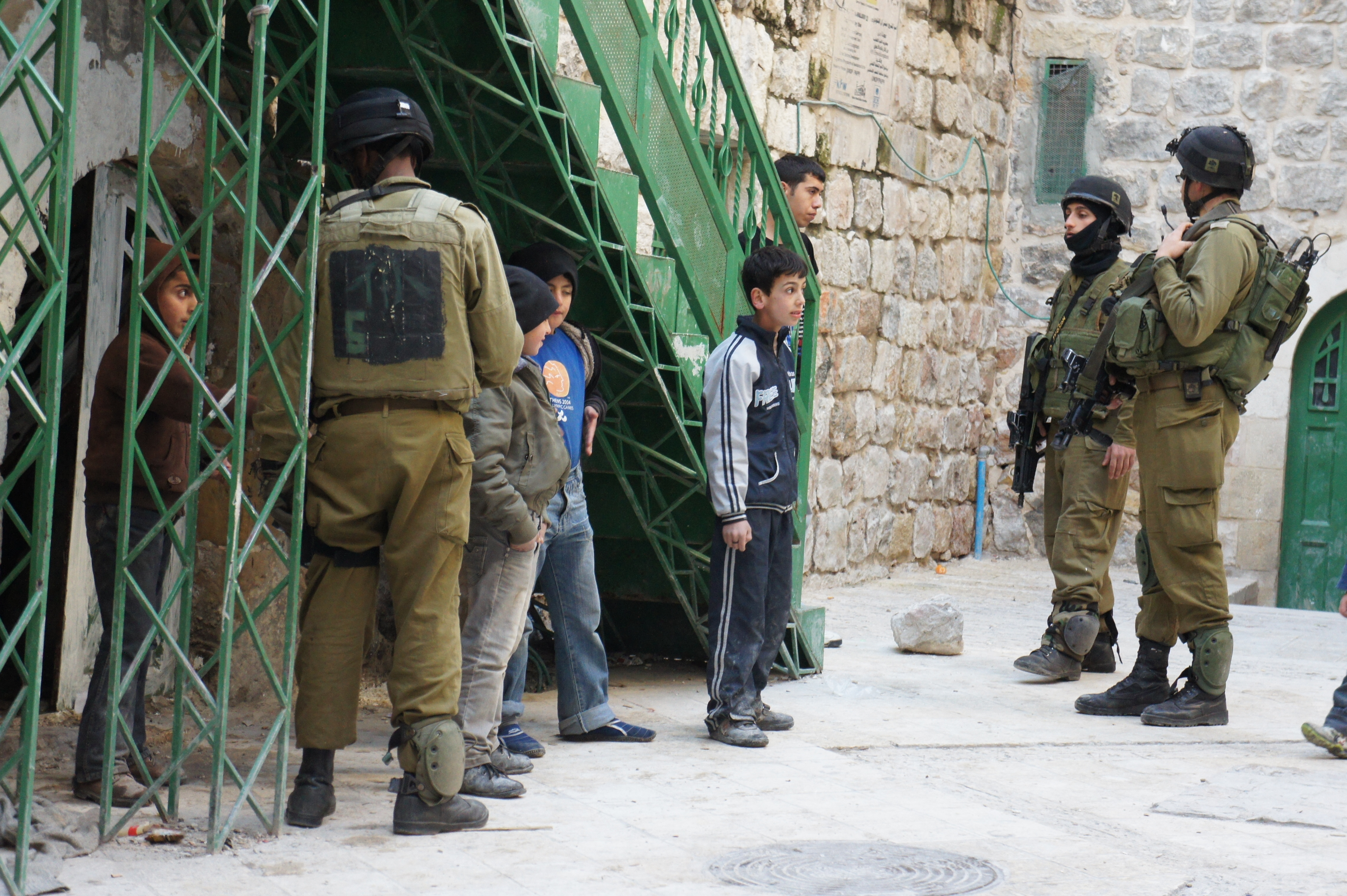 Soldiers detaining children in Hebron, 4 th February 2012. Read more about it here